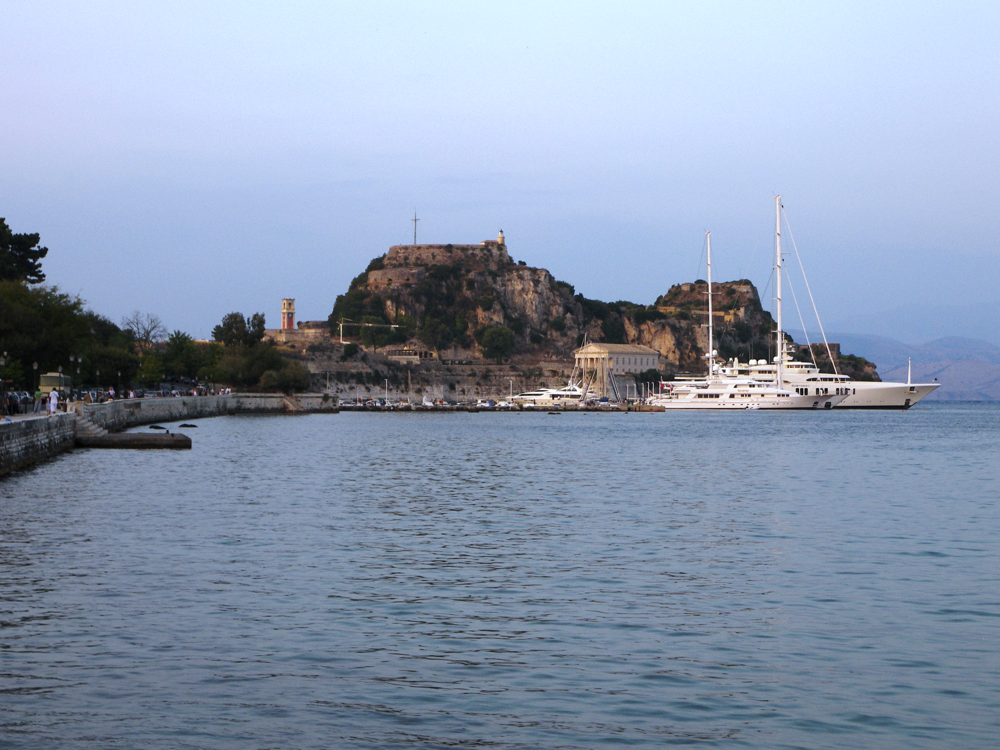 Please see filename